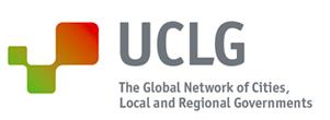 UCLG logo